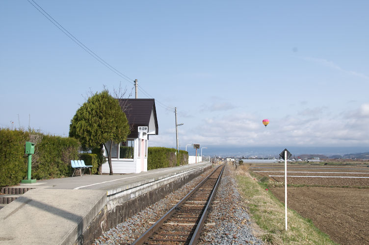 JR-East Koumi-line Aonuma station.